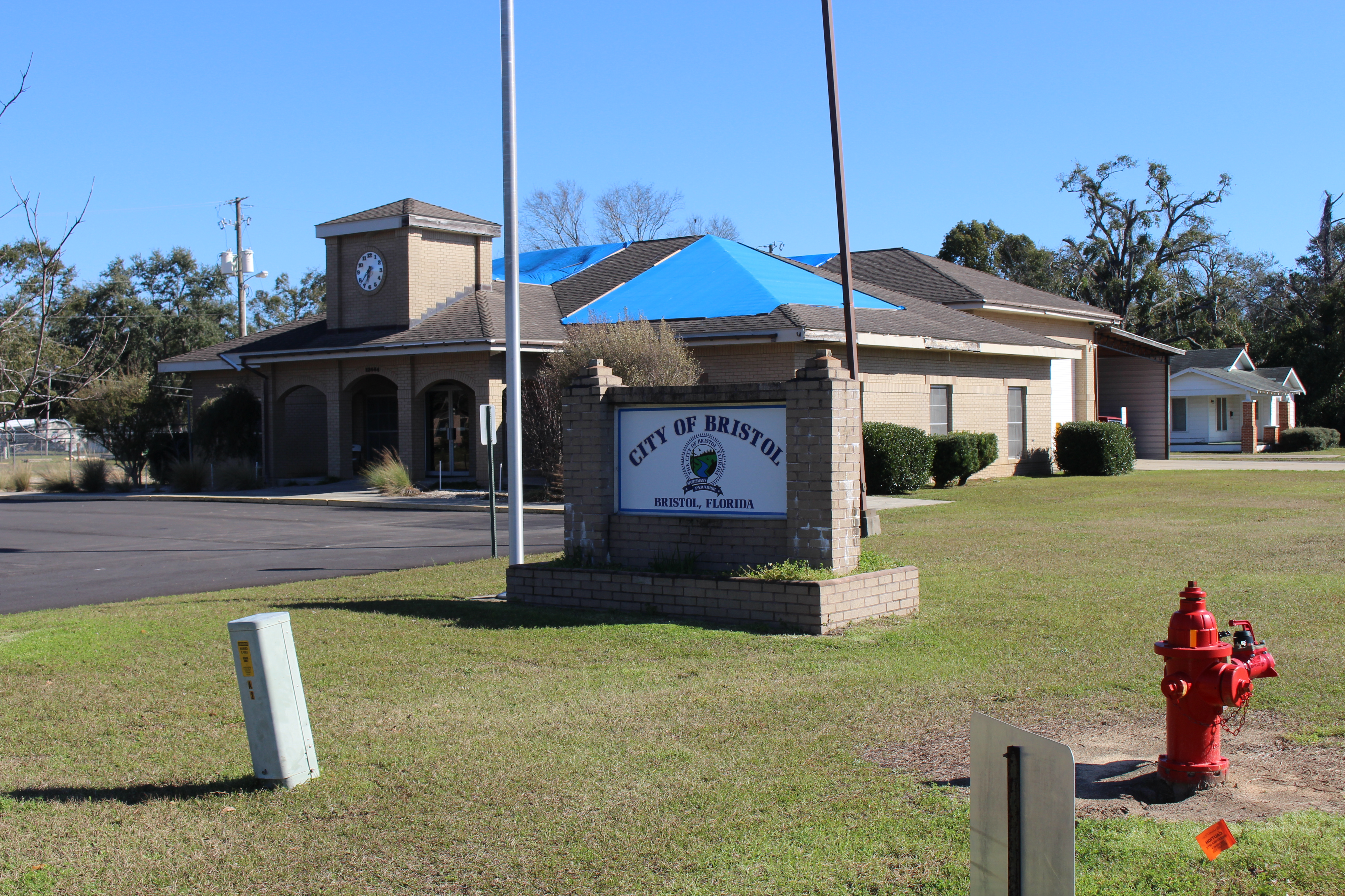 Bristol City Hall, fire station, 12444 NW Virginia G Weaver St., Bristol, Liberty County, Florida